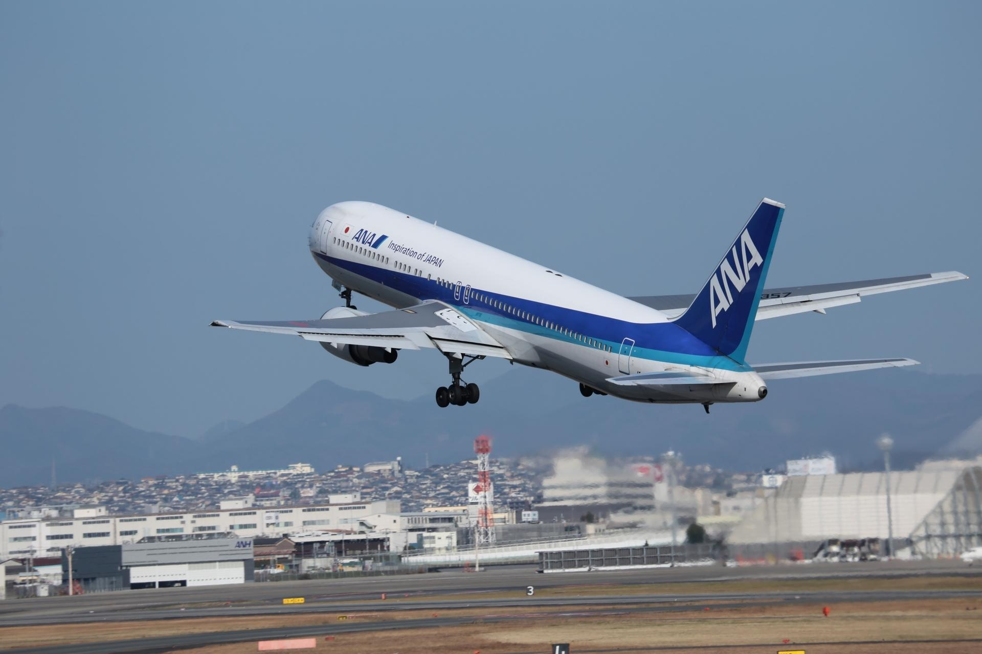 ANA in ITM